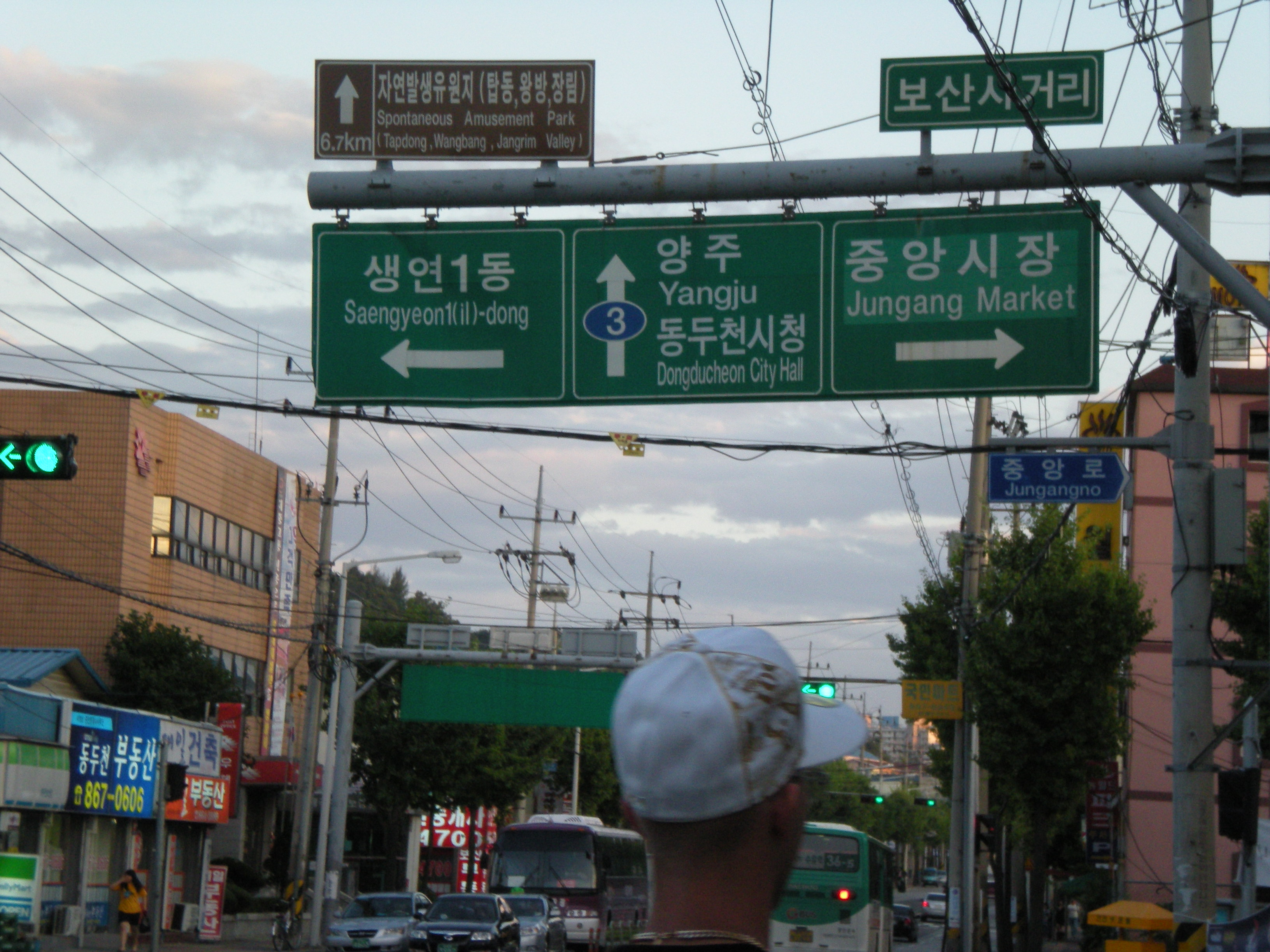 A photo of part of the downtown area of Dongducheon, Republic of Korea.